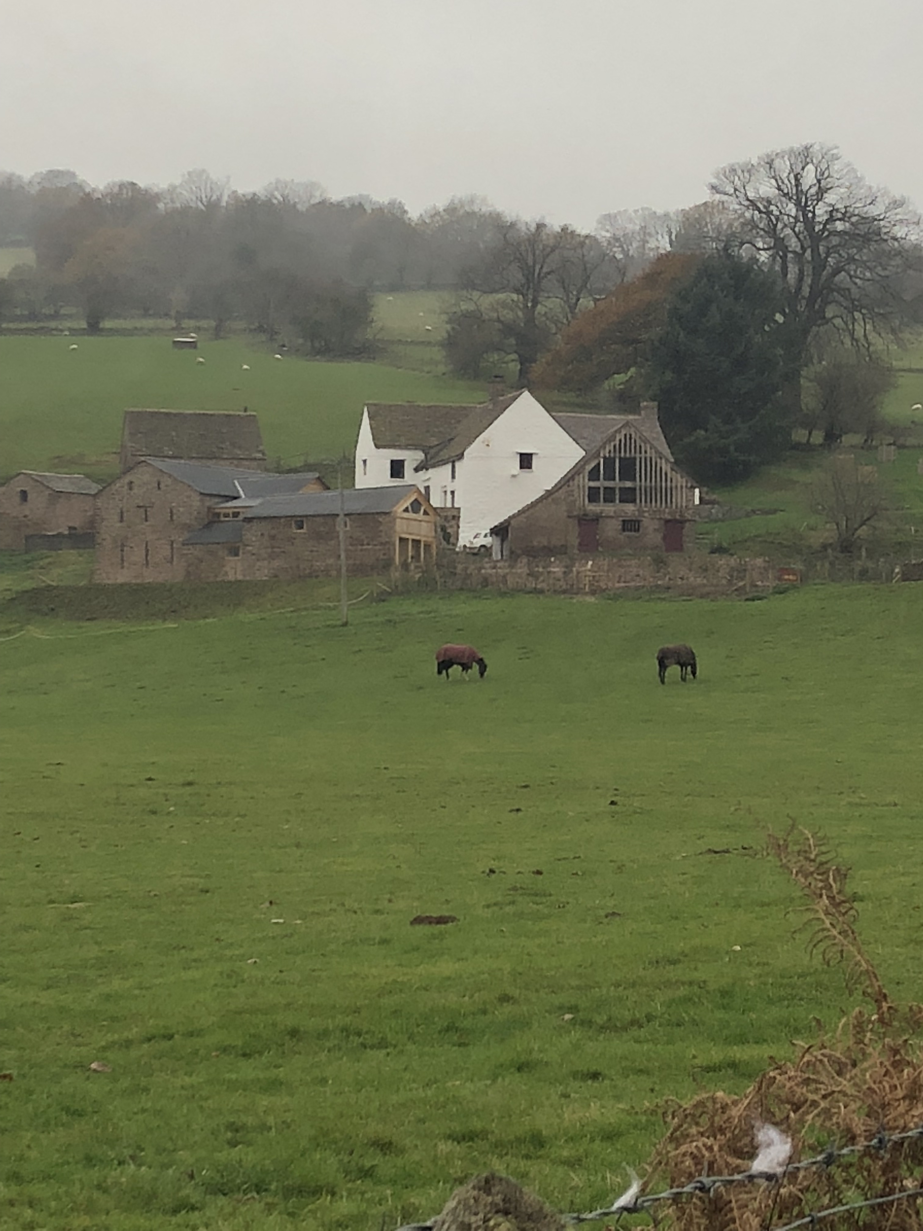 Llwyn-celyn Farmhouse, Llanvihangel Crucorney - undergoing restoration